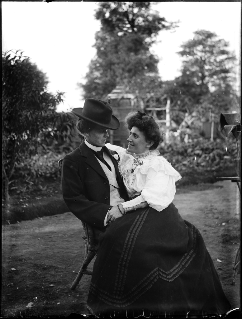 Format: Glass plate negative. Repository: Phillips Glass Plate Negative Collection, Powerhouse Museum Part Of: Powerhouse Museum Collection General information about the Powerhouse Museum Collection is available at Persistent URL: Acquisition credit line: Gift of the Estate of Raymond W Phillips, 2008